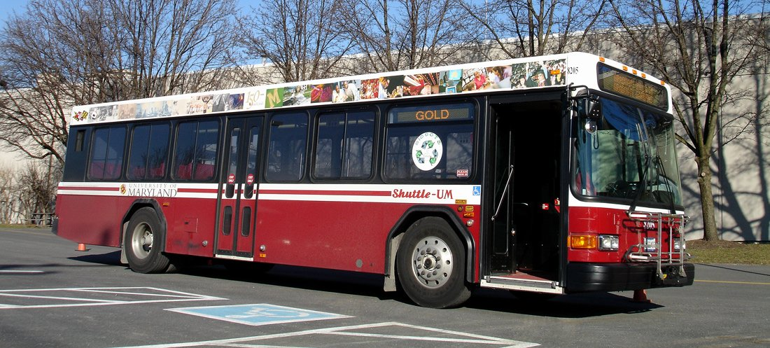 A 2005 Gillig G21B102N4 "Low Floor" is in service for Shuttle-UM on February 24, 2006 on a charter in Towson, Maryland.